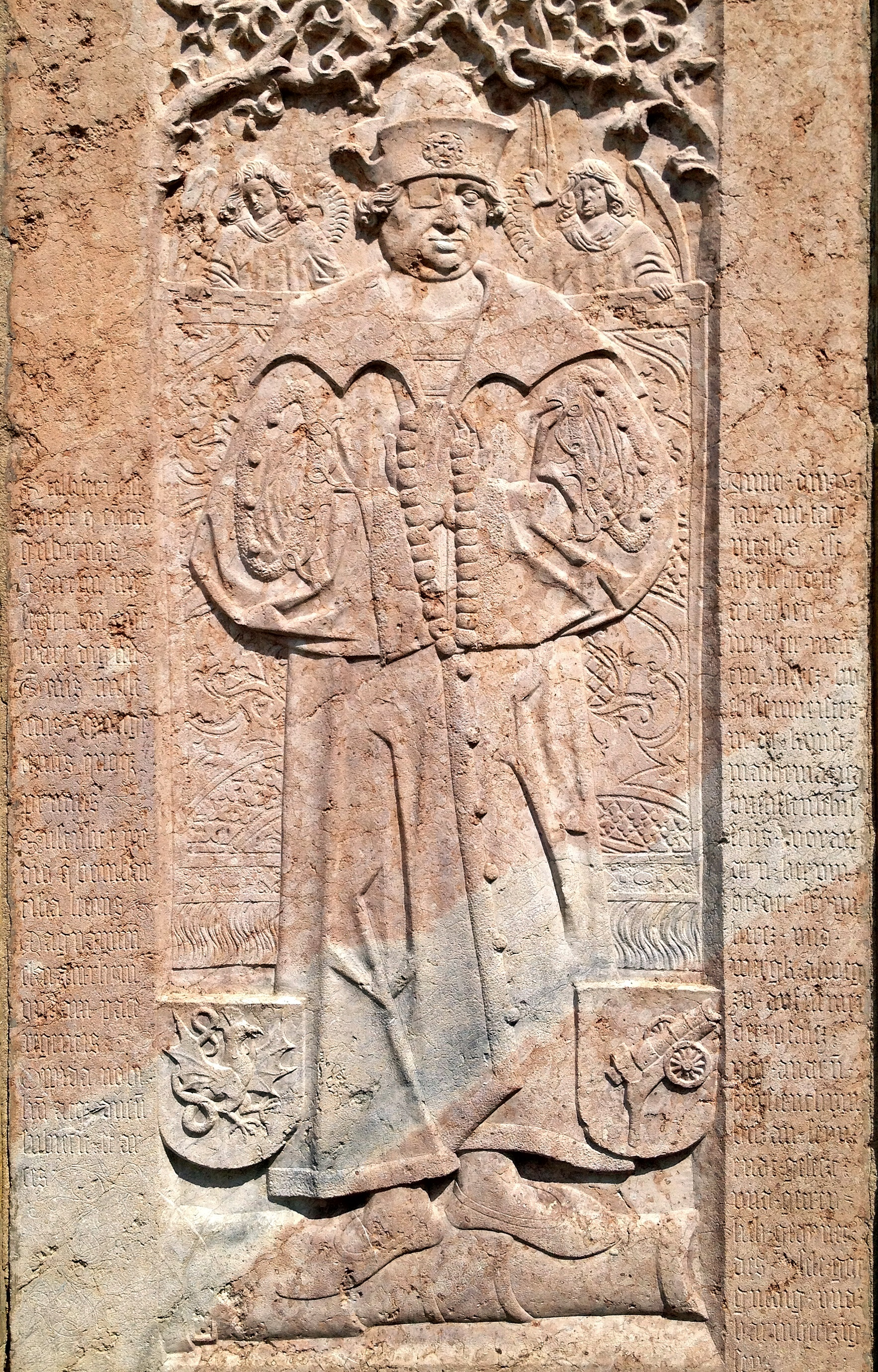 Epitaphporträt des Geschützmeisters Martin Merz (+ 1501) Amberg, St. Martin